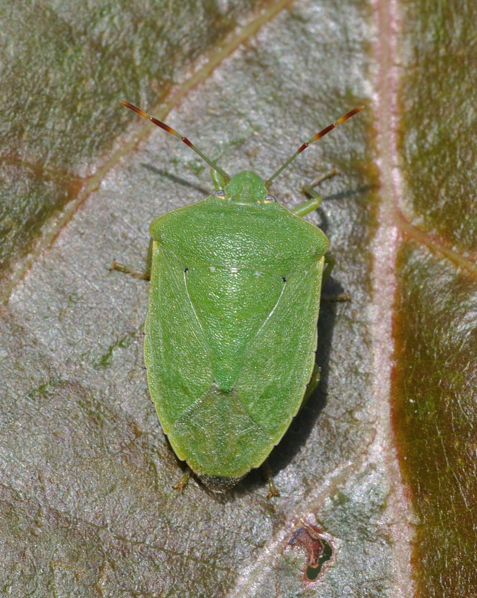 A Green Vegetable Bug (Nezara viridula) in Puerto de la Cruz, Tenerife, Spain.